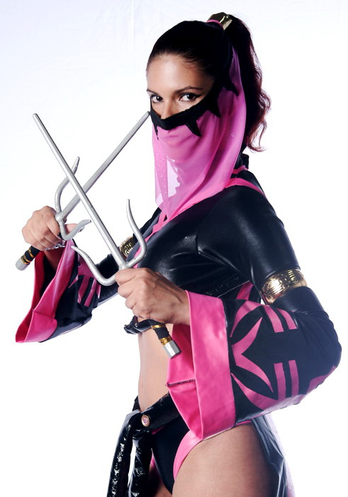 (Edited from the original.)